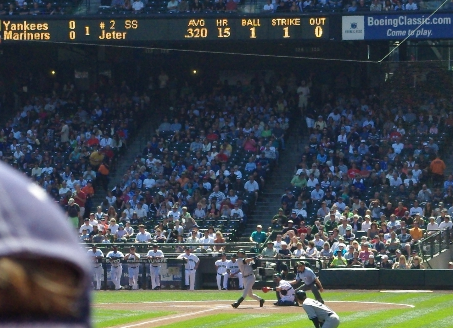 Derek Jeter gets hit number 2,673 as a shortstop to tie the all-time record for most hits by a shortstop in a game against the Seattle Mariners at Safeco Field in Seattle.